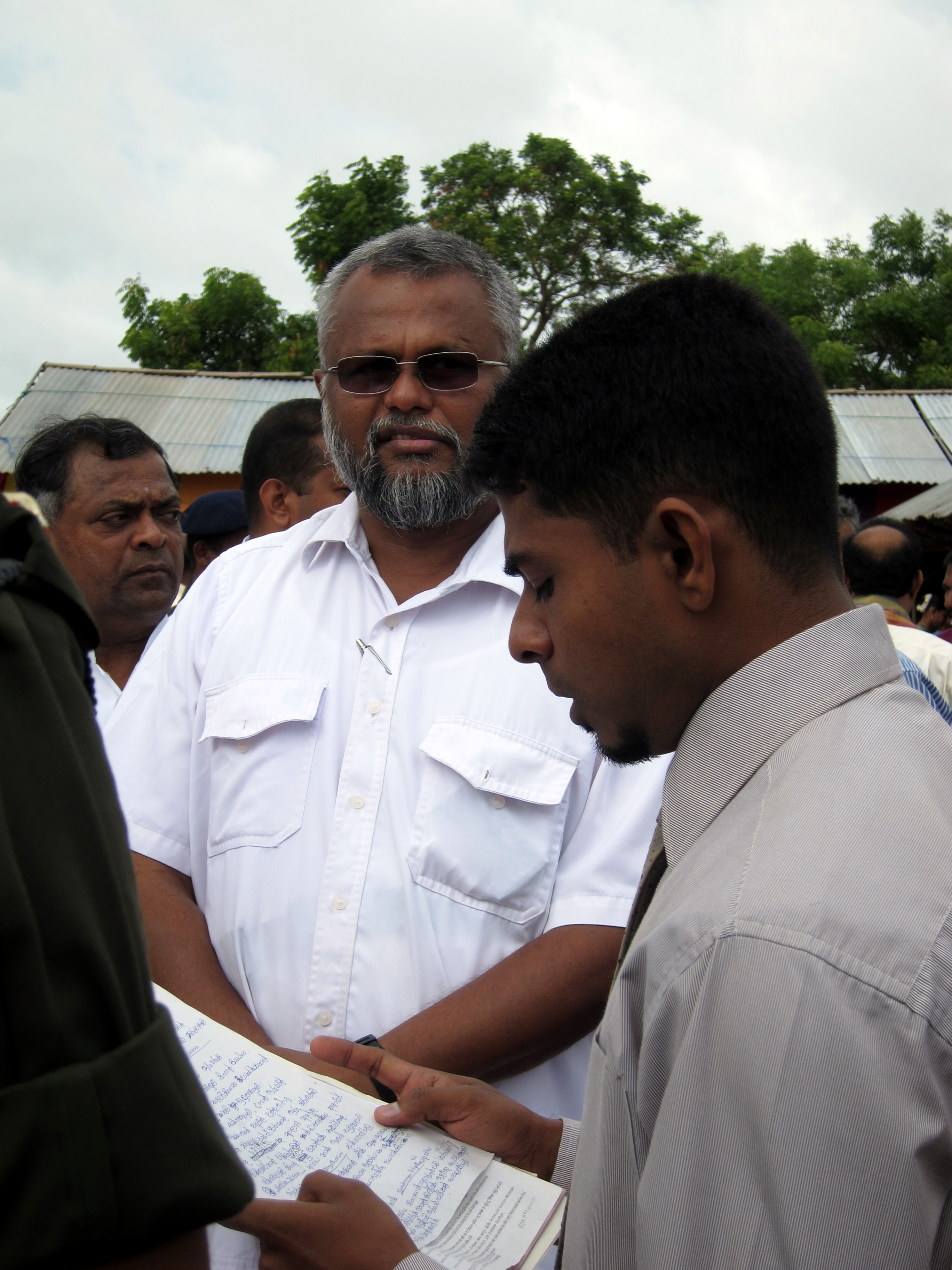 Douglas Devananda at Vavuniya mass wedding when 53 former LTTE cadres were married. They are being moved to family houses, but still kept in the rehabilitation program. Bollywood actor Vivek Oberoi and MP Namal Rajapaksa attended.